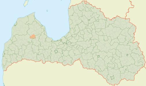 Location of Abava Parish in Latvia